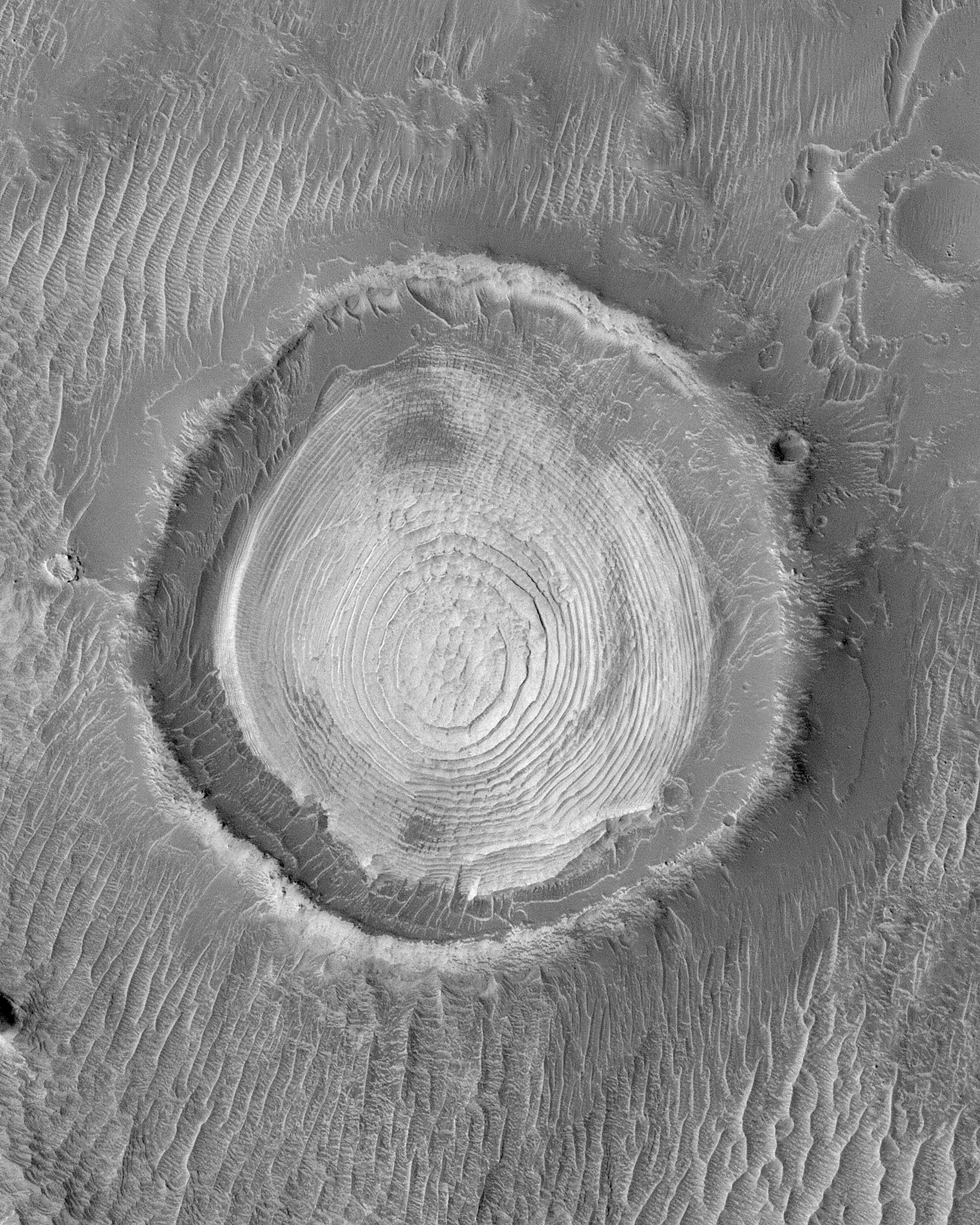 Crater on Mars, in Schiaparelli basin. Width of the crater is 2.3 km. Taken by Mars Global Surveyor. Photo credit is Malin Space Science Systems/NASA.